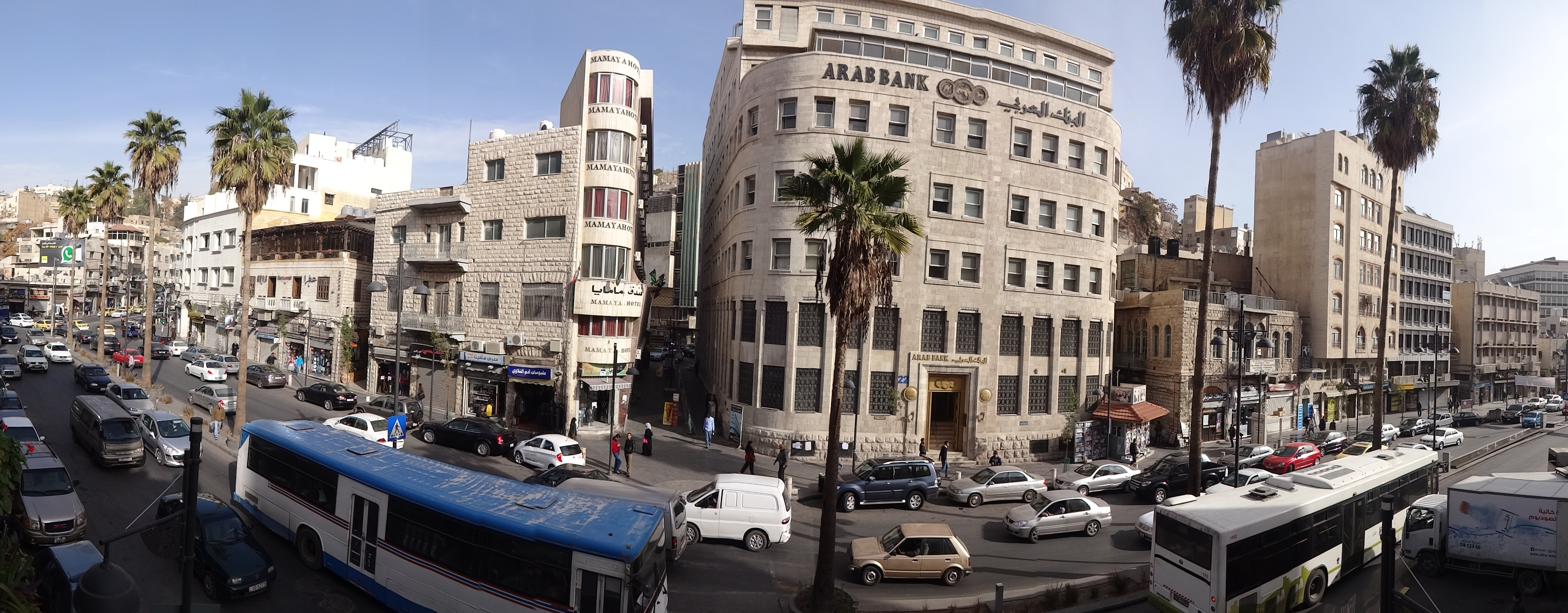 Old Amman Market and central area. Very famous Soque and a tourist magnet